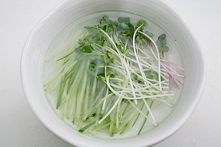 musun (Korean radish sprout)